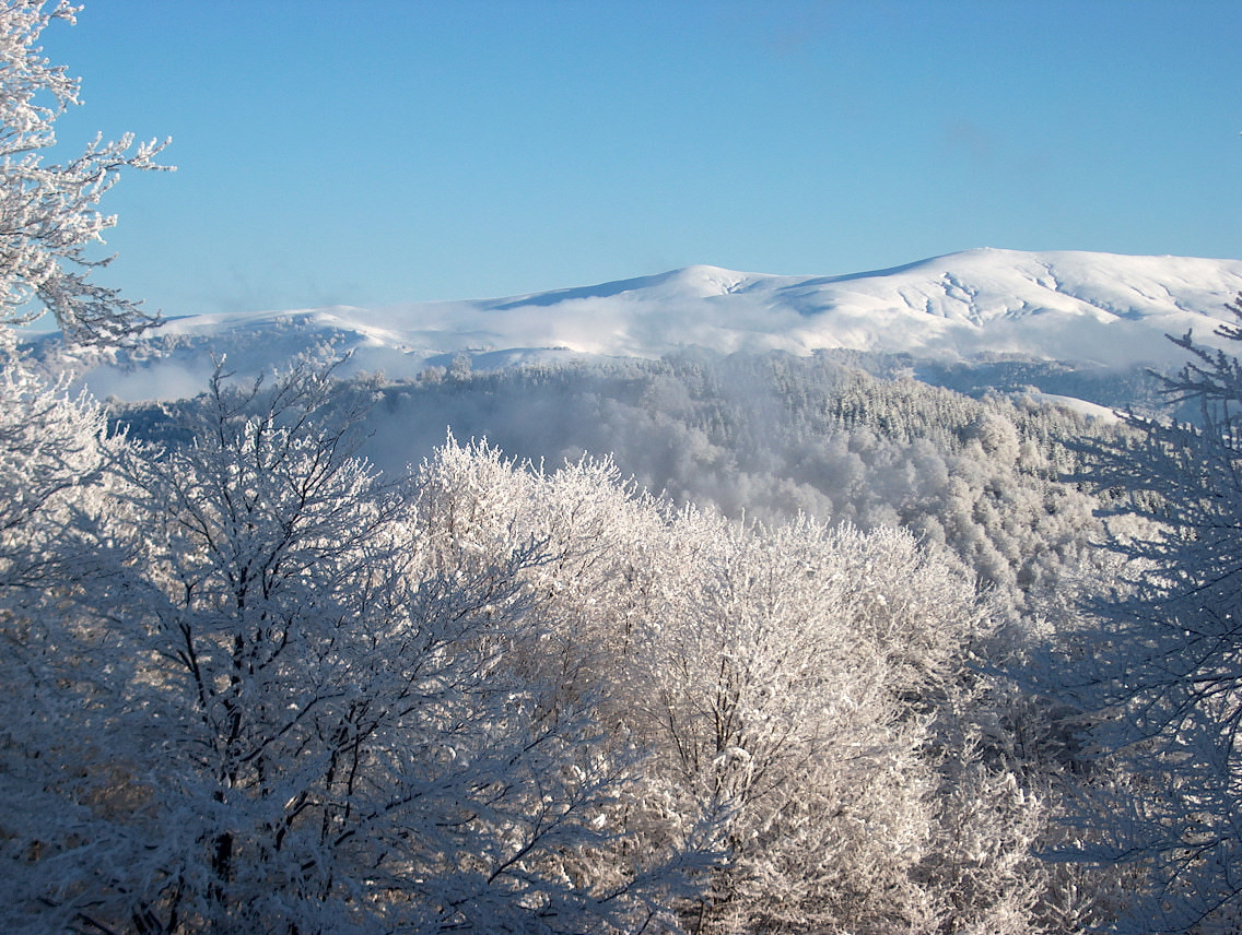 Winter Carev Vrv peak, Osogovski mountains, R.o.Macedonia